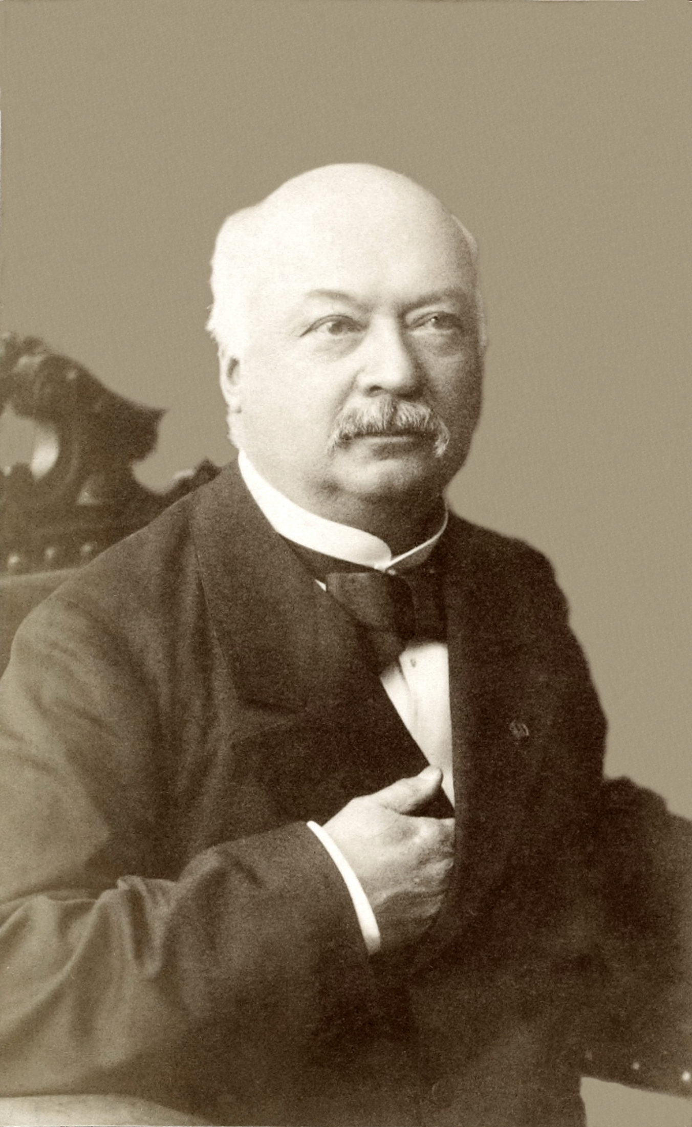 Jules Zeller (1813 - 1900), french historian.